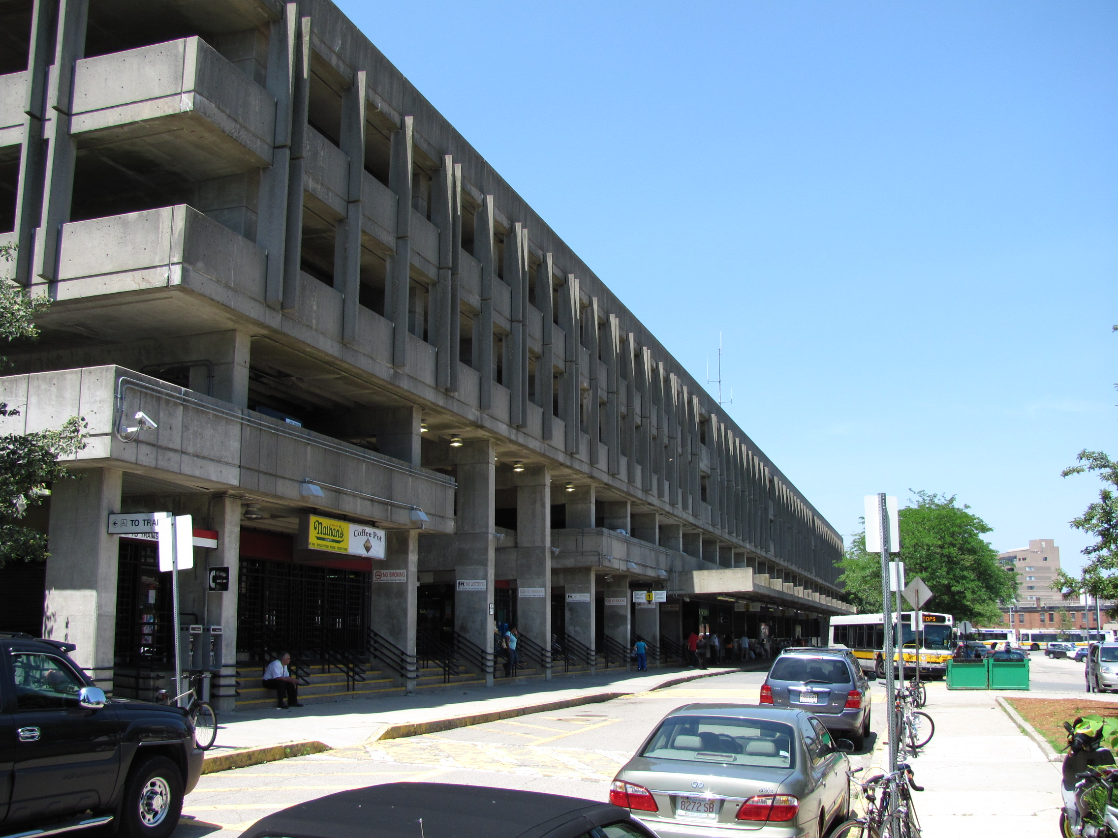 Quincy Center MBTA station, Quincy Massachusetts